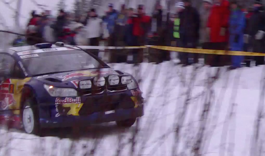 Kimi Räikkönen driving a Citroen C4 at Arctic Lapland Rally 2010, Rovaniemi Finland.